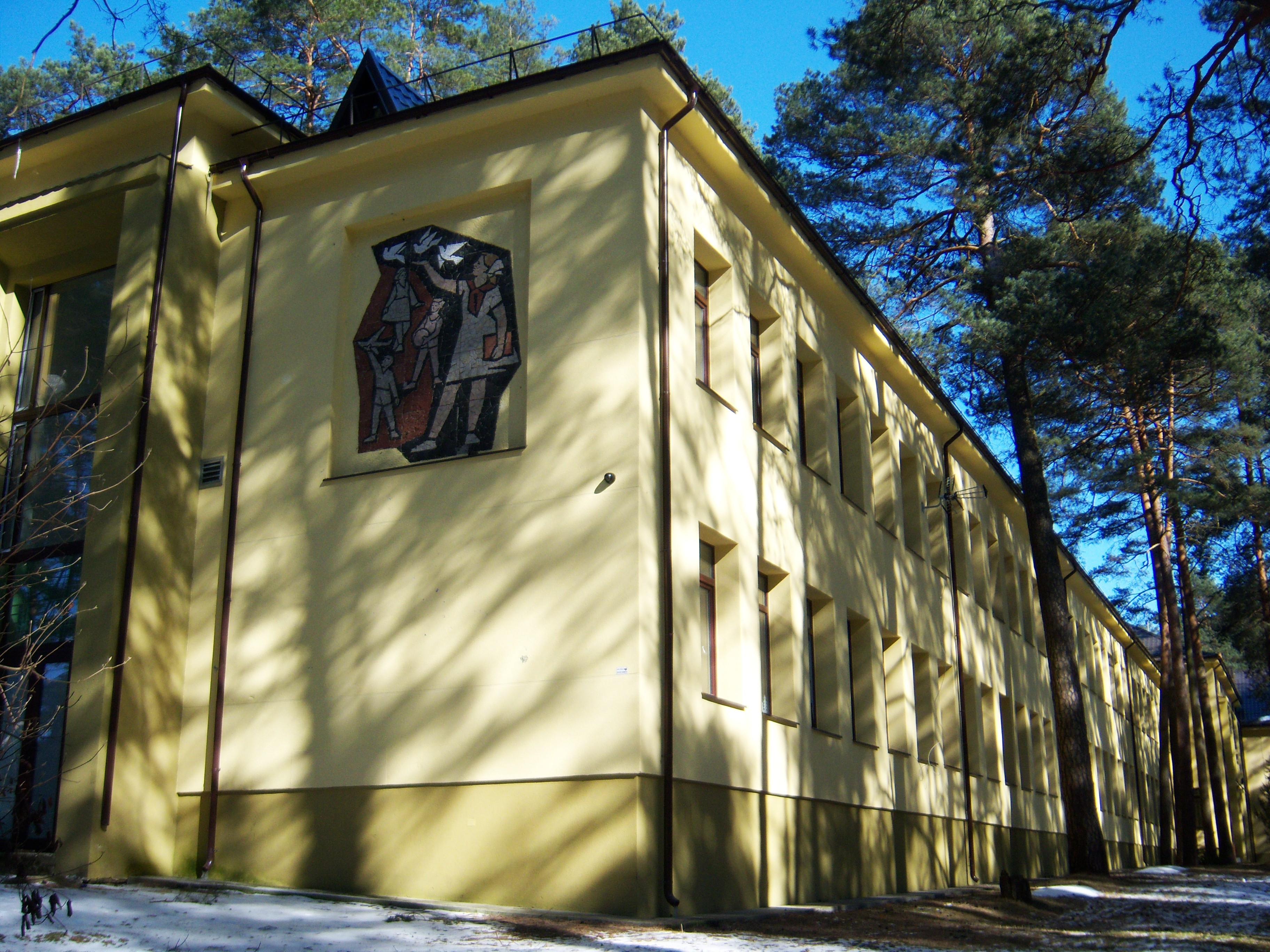 Kulautuva children sanatory school, Kaunas district, Lithuania